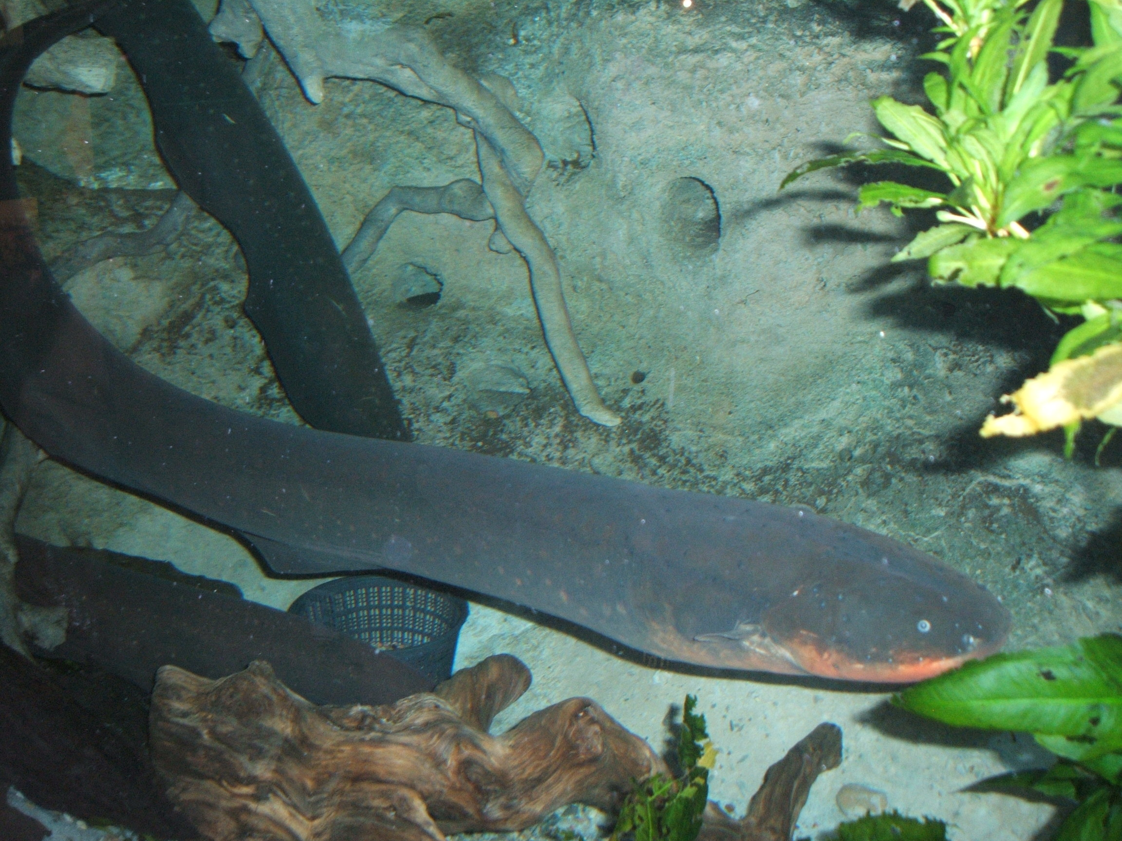 Electric eel (Electrophorus electricus). Taken at the New England Aquarium (Boston, MA, December 2006. Copyright © 2006 Steven G. Johnson and donated to Wikipedia under GFDL and CC-by-SA.